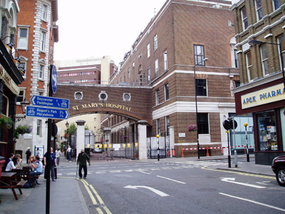 Photograph by username Hegster. St Mary's Hospital, NHS Trust and Imperial College London campus. Old section of the hospital.